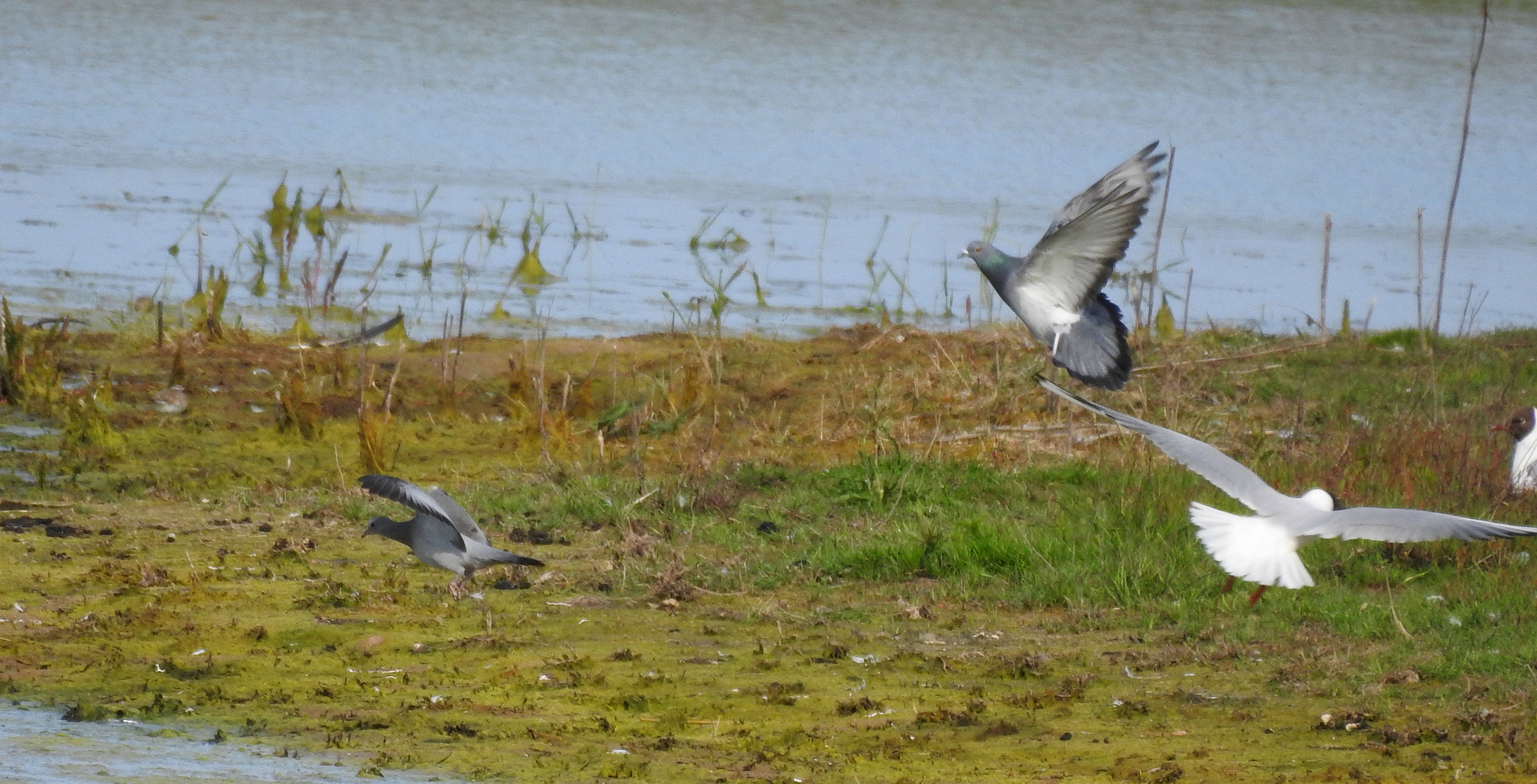 Scientific name: Columba oenas Original file: DSCN3410-new